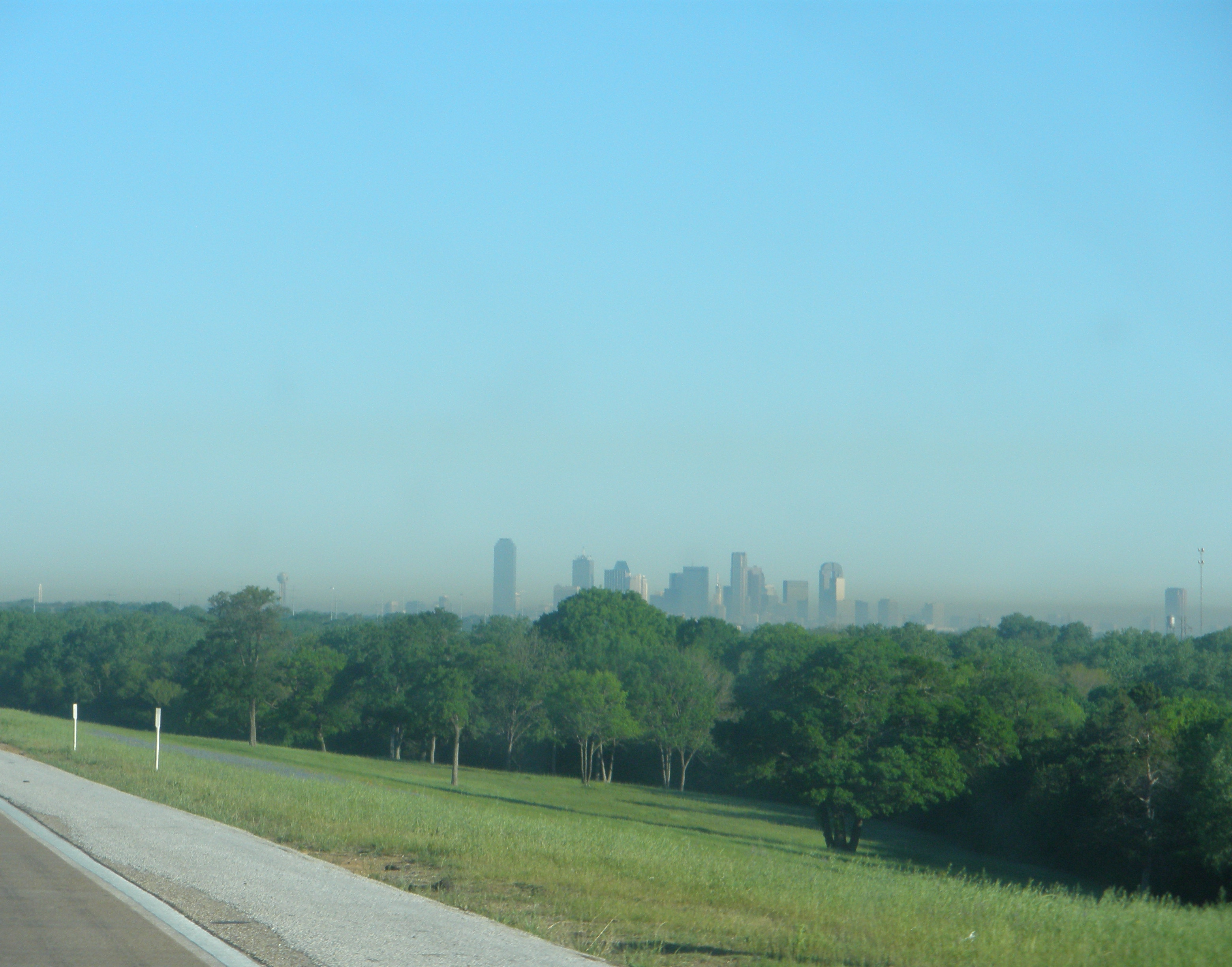 Smog over the city of Dallas, Tx.